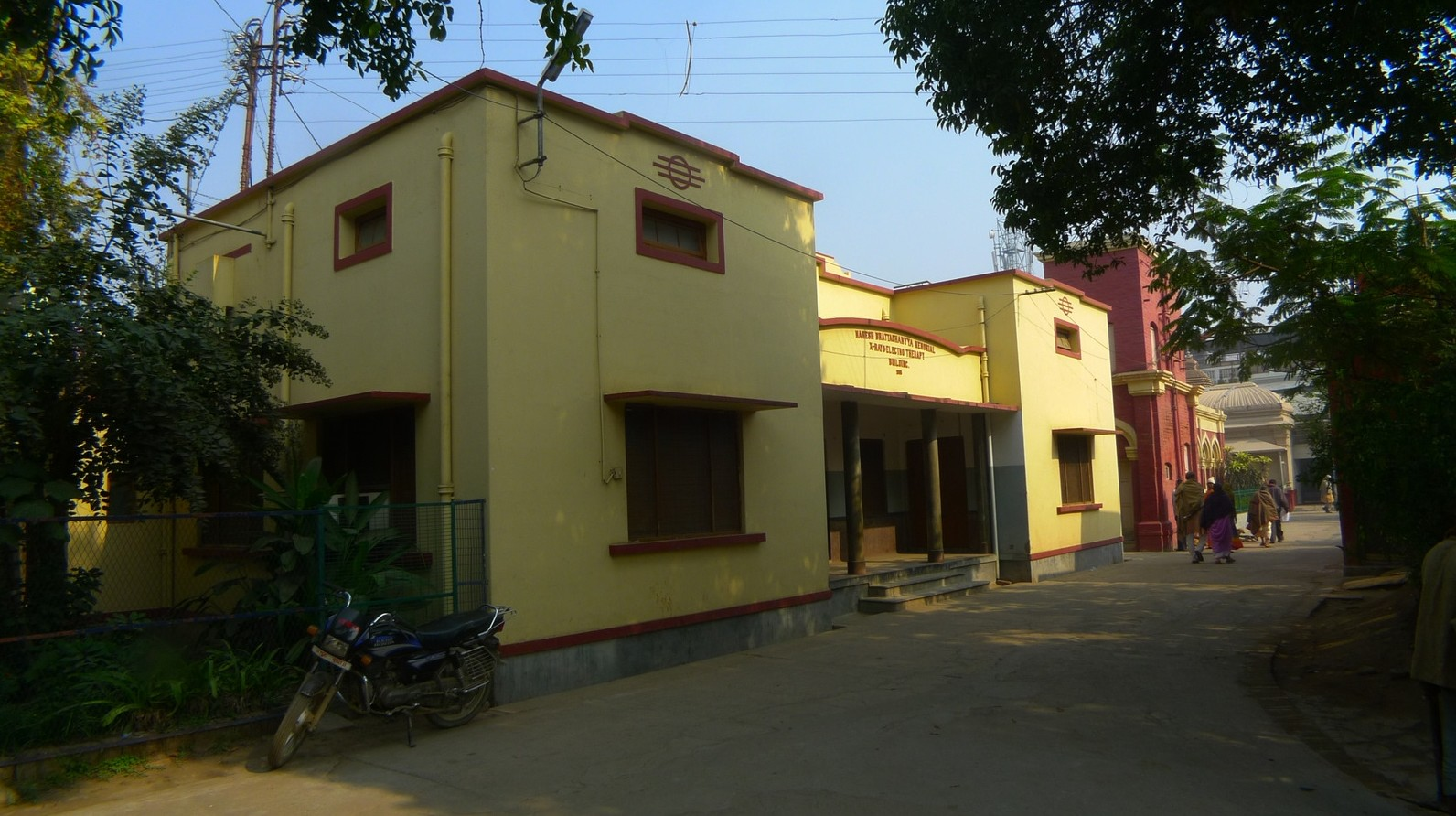 Bâtiments principaux